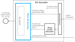 ECMA-407 deocder